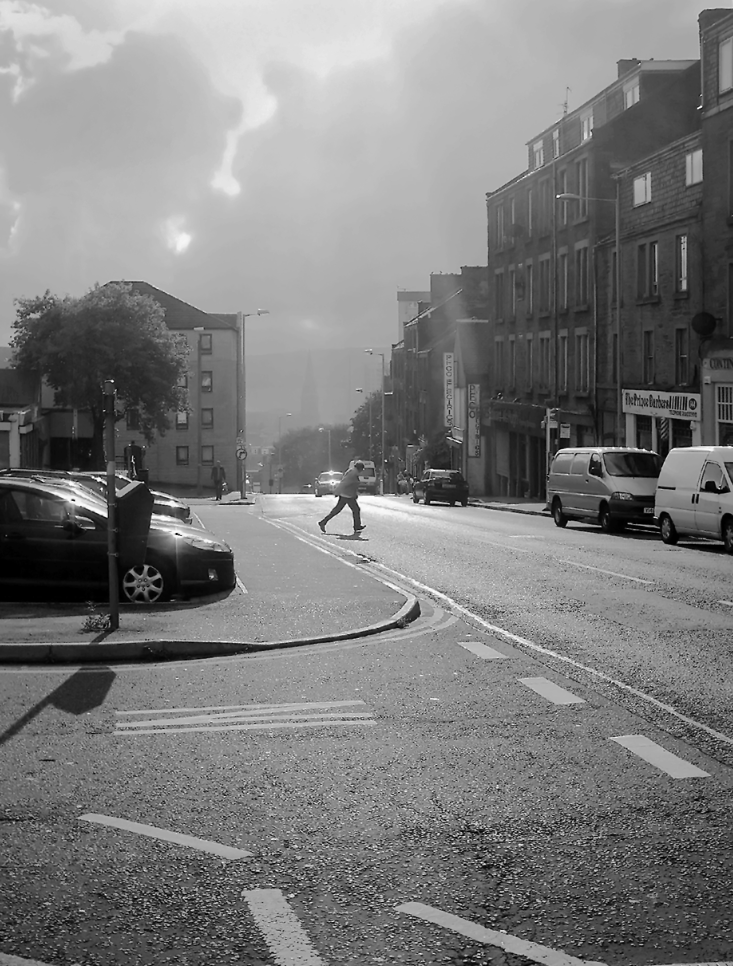 Hilltown, Dundee, Scotland